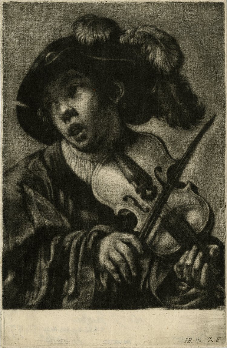 Portrait of a young man wearing a feathered cap and playing a violin